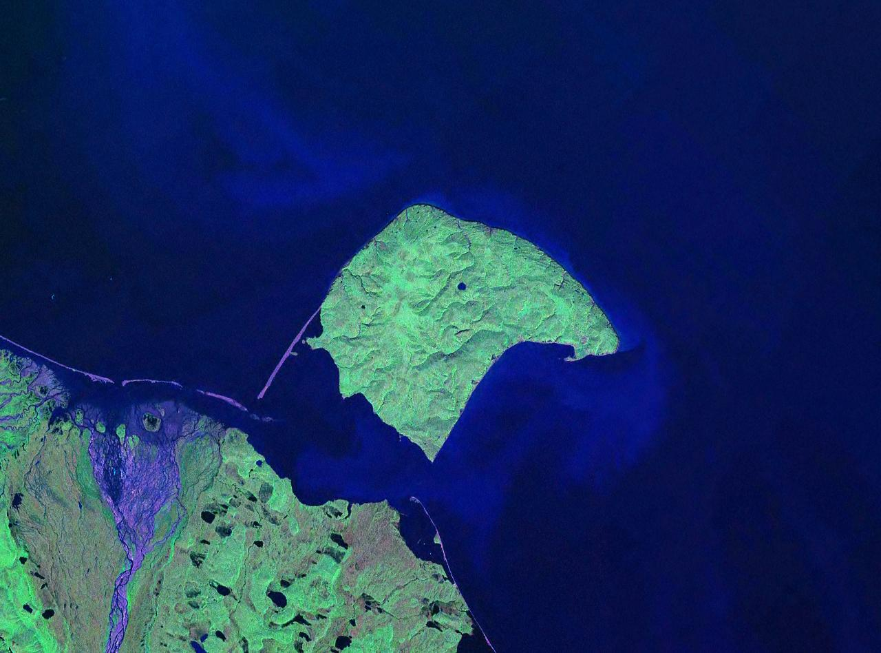 Herschel Island in the arctic, location circled. NASA Landsat pseudocolour image.